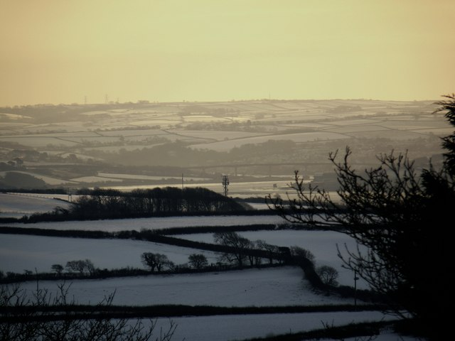 Bideford New Bridge As seen from West Down Hill near West Hill Farm.